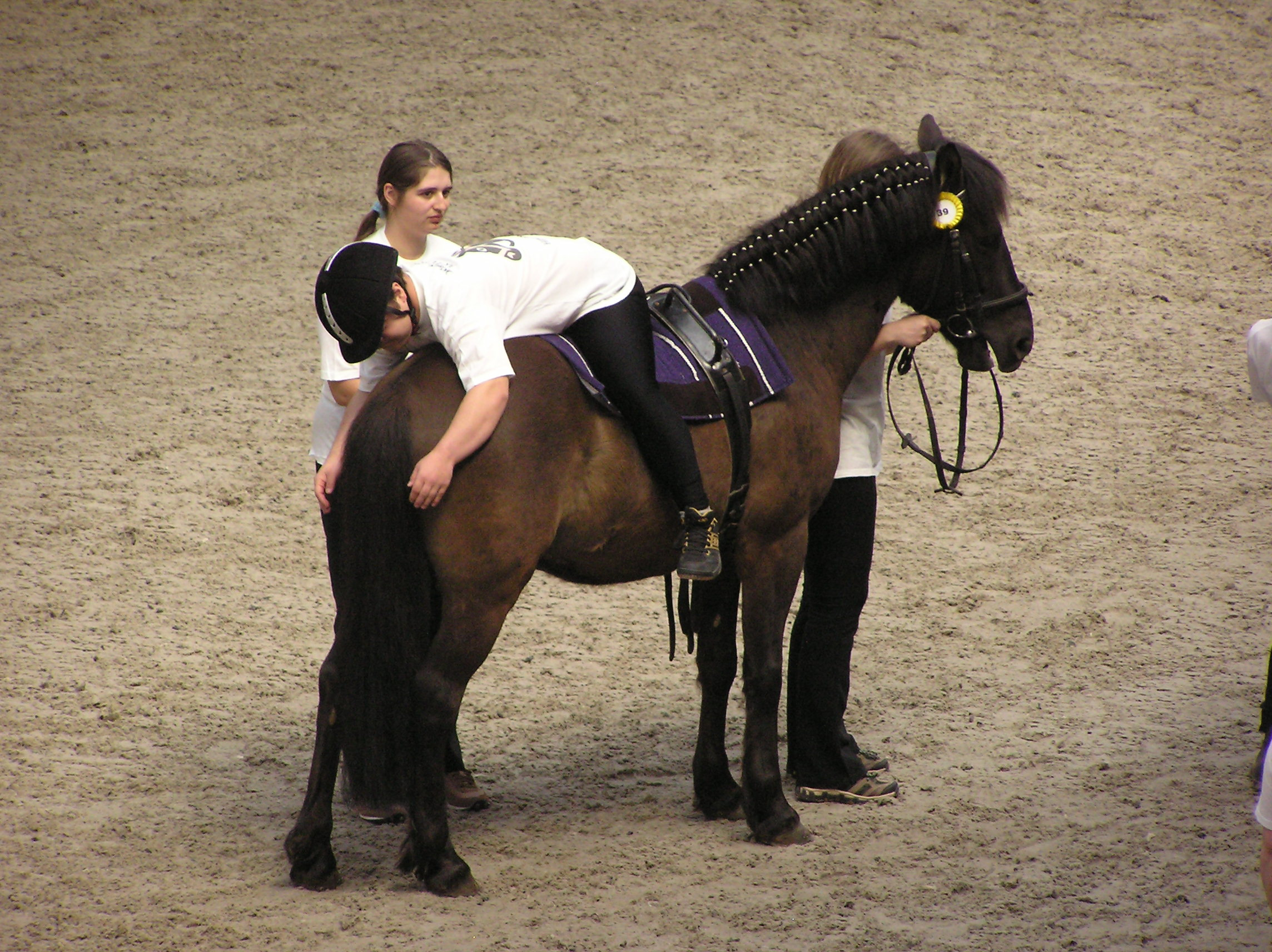 Therapeutic horseback riding horse show, Císařský ostrov, Prague, Czech Republic